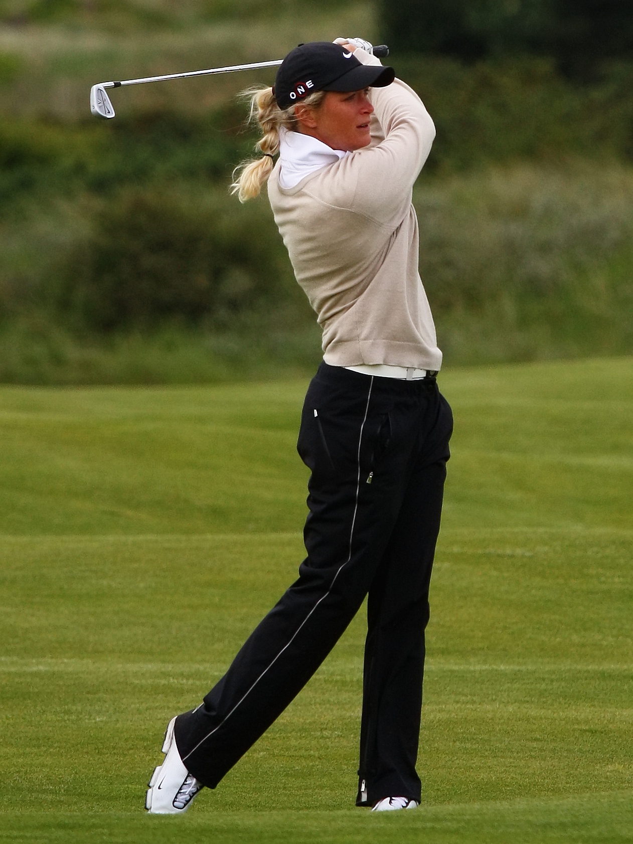 SOUTHPORT, UNITED KINGDOM - JULY 28: Suzann Pettersen of Norway watches her approach shot to the 10th green during third practice day before 2010 Ricoh Women's British Open held at Royal Birkdale on July 28, 2010 in Southport, England. (Photo by Wojciech Migda)